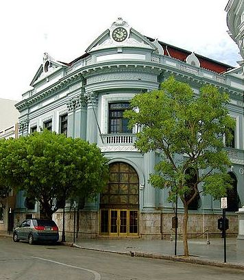 Headquarters of the old Banco Credito y Ahorro Ponceno — at Plaza Las Delicias, Ponce, Puerto Rico. 1920s building in the Ponce Historic Zone, and on the National Register of Historic Places in Ponce, Puerto Rico.